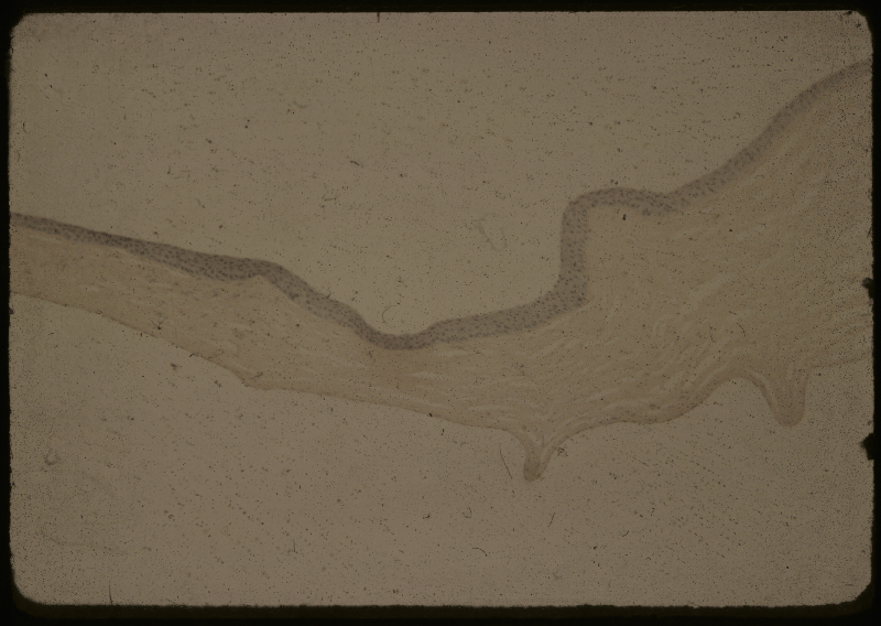 Case 245 from David G Cogan collection. The patient was known to have keratoconus for at least six years. Histopathology Exam The specimen was of the cornea with moderate thinning of the stroma and some wrinkles of the posterior surface.